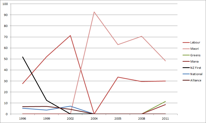 Electoral results of the New Zealand electorate of Te Tai Hauāuru since 1996. Labour Party Māori Party Green Party Mana Party New Zealand First National Party Alliance